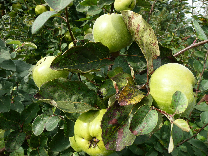 Cydonia oblonga cv. Konstantinopler Apfequitte